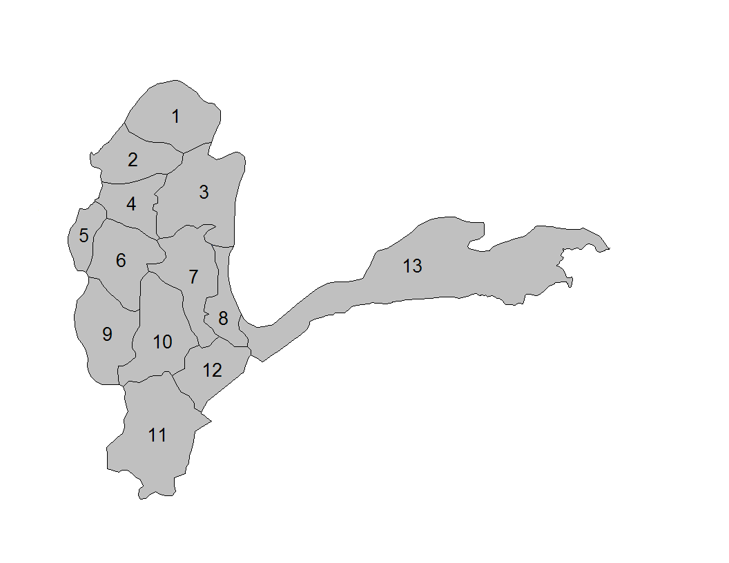 Numbered district map of Badakhshan Province, Afghanistan. Original map source: Image:Badakhshan districts.png